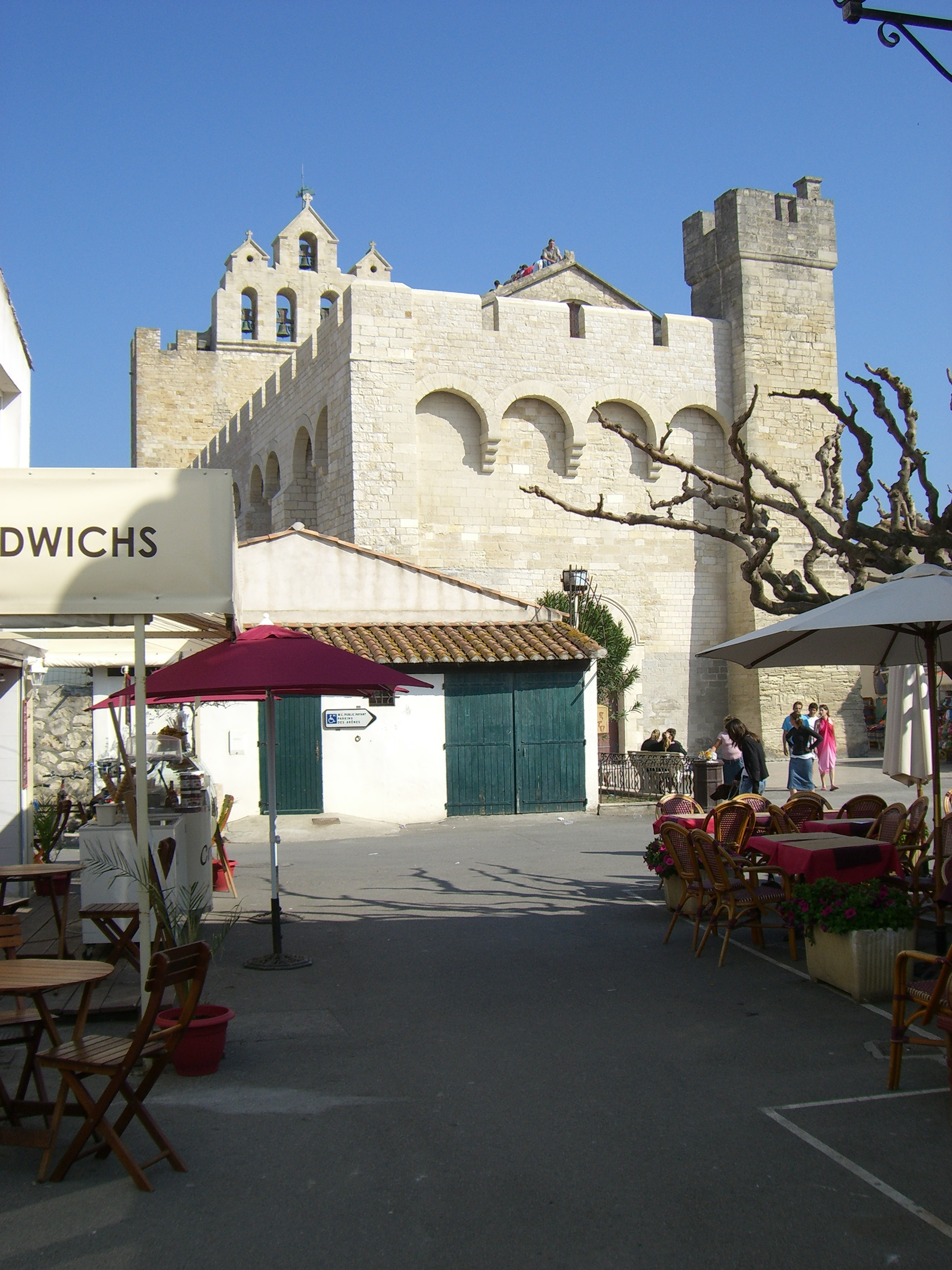 The church of Les Saintes Maries de la mer